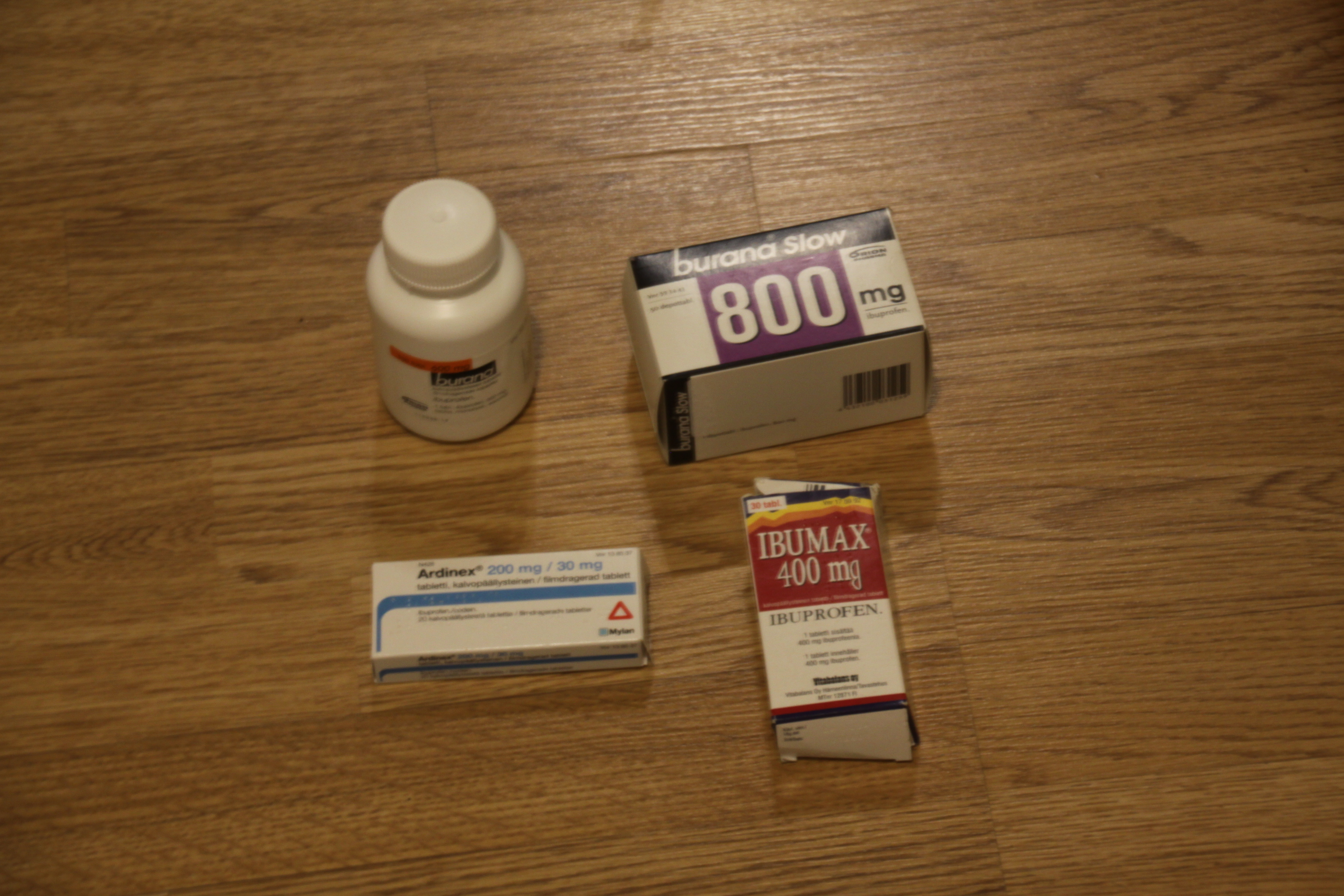 Finnish ibuprofen products.